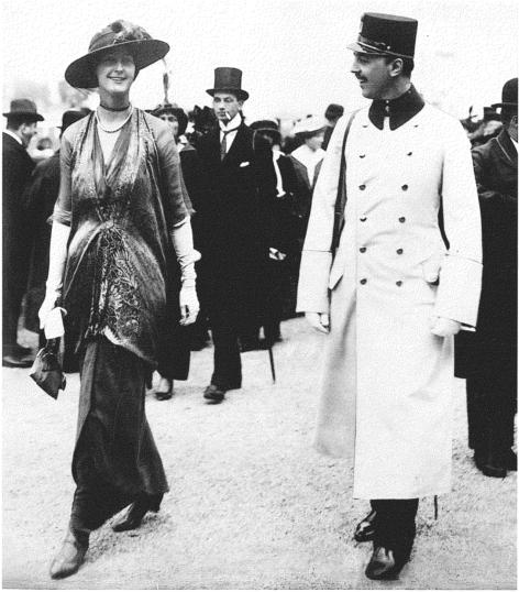 Countess Drascovich accompanied by Ferdinand, Prince Auersperg at the horse-races in Freudenau near Vienna.